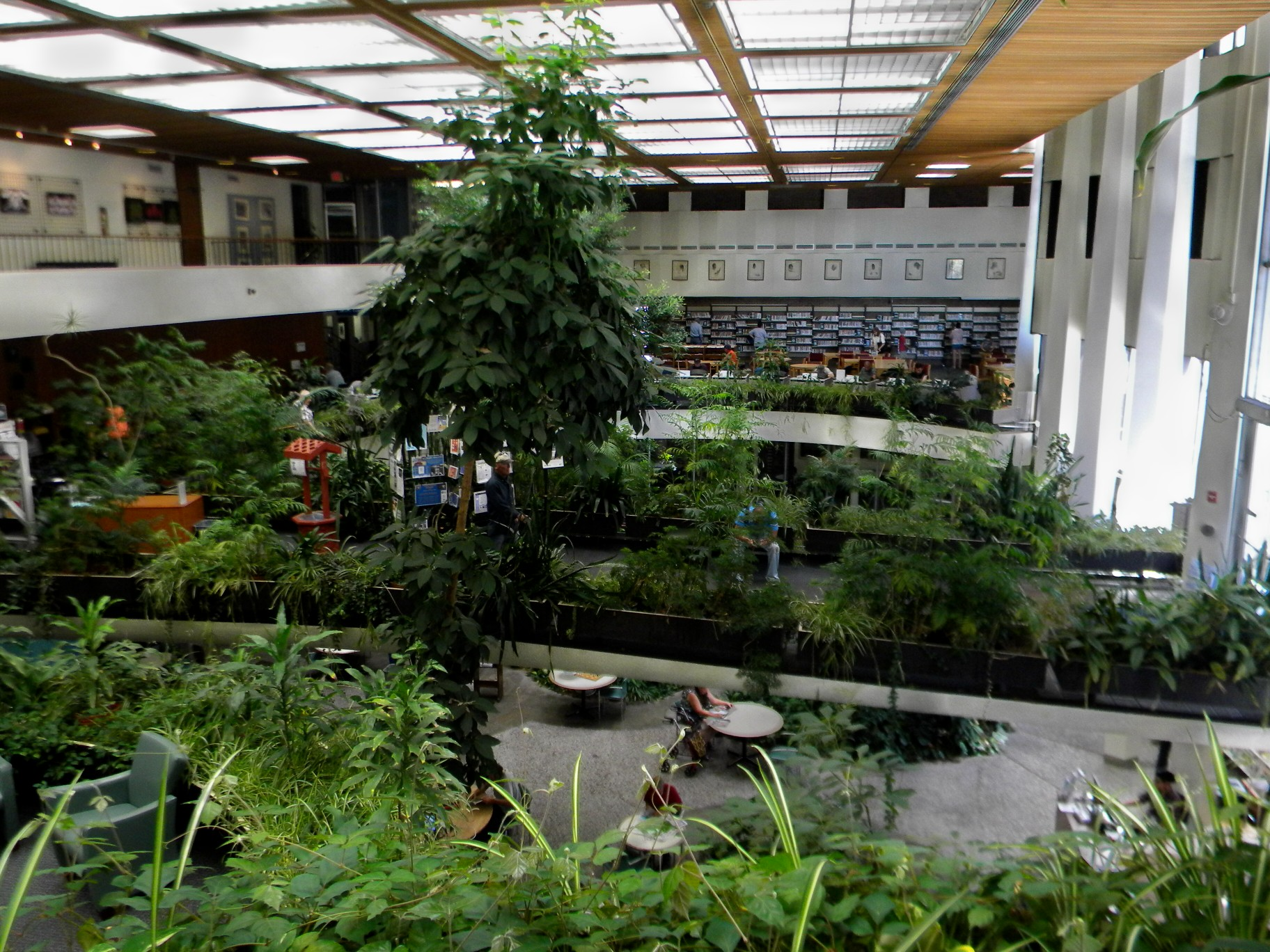 Washoe County Library The interior of the Library is the extraordinary aspect of this Site.